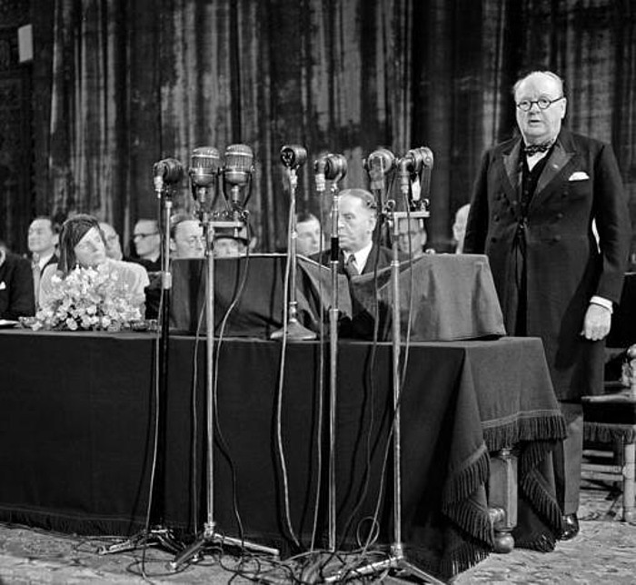 Churchill's inaugurational speech of the Council of Europe in the Hague May 7th 1948